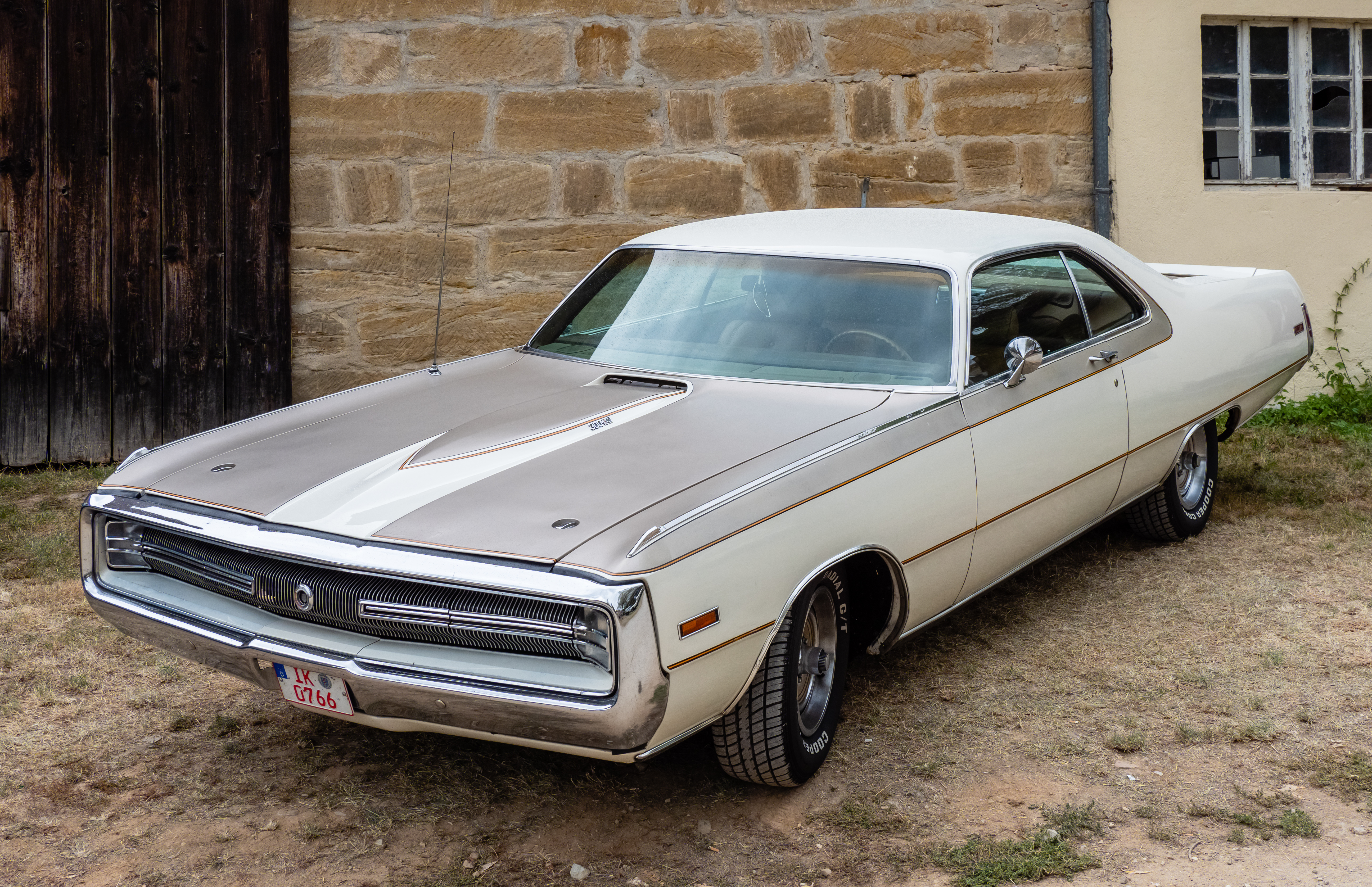 Chrysler 300 Hurst BJ.1970 at the 5th US-Car meeting in Gut Leimershof near Bamberg